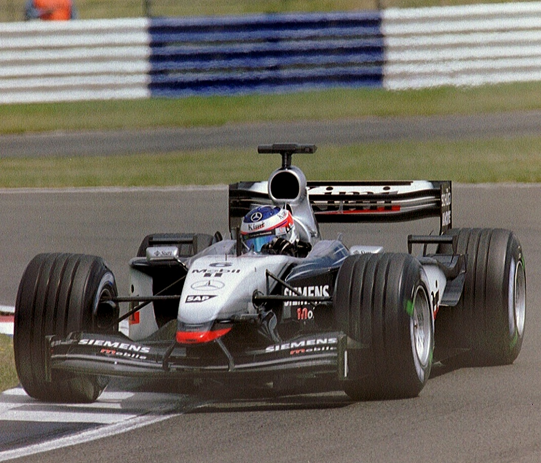 Kimi Räikkönen, driving his West McLaren Mercedes at the 2003 British Grand Prix.